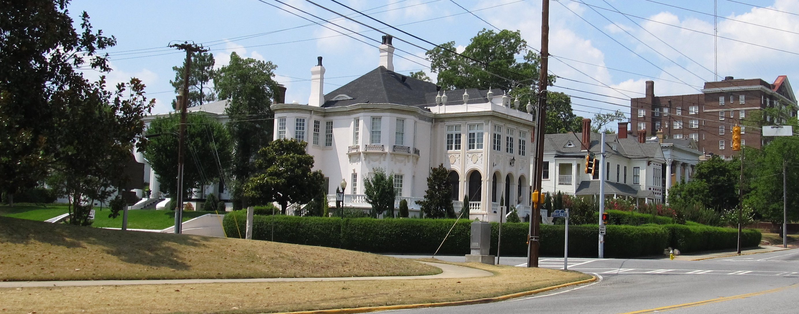 College Street and Georgia Avenue, Macon, Georgia